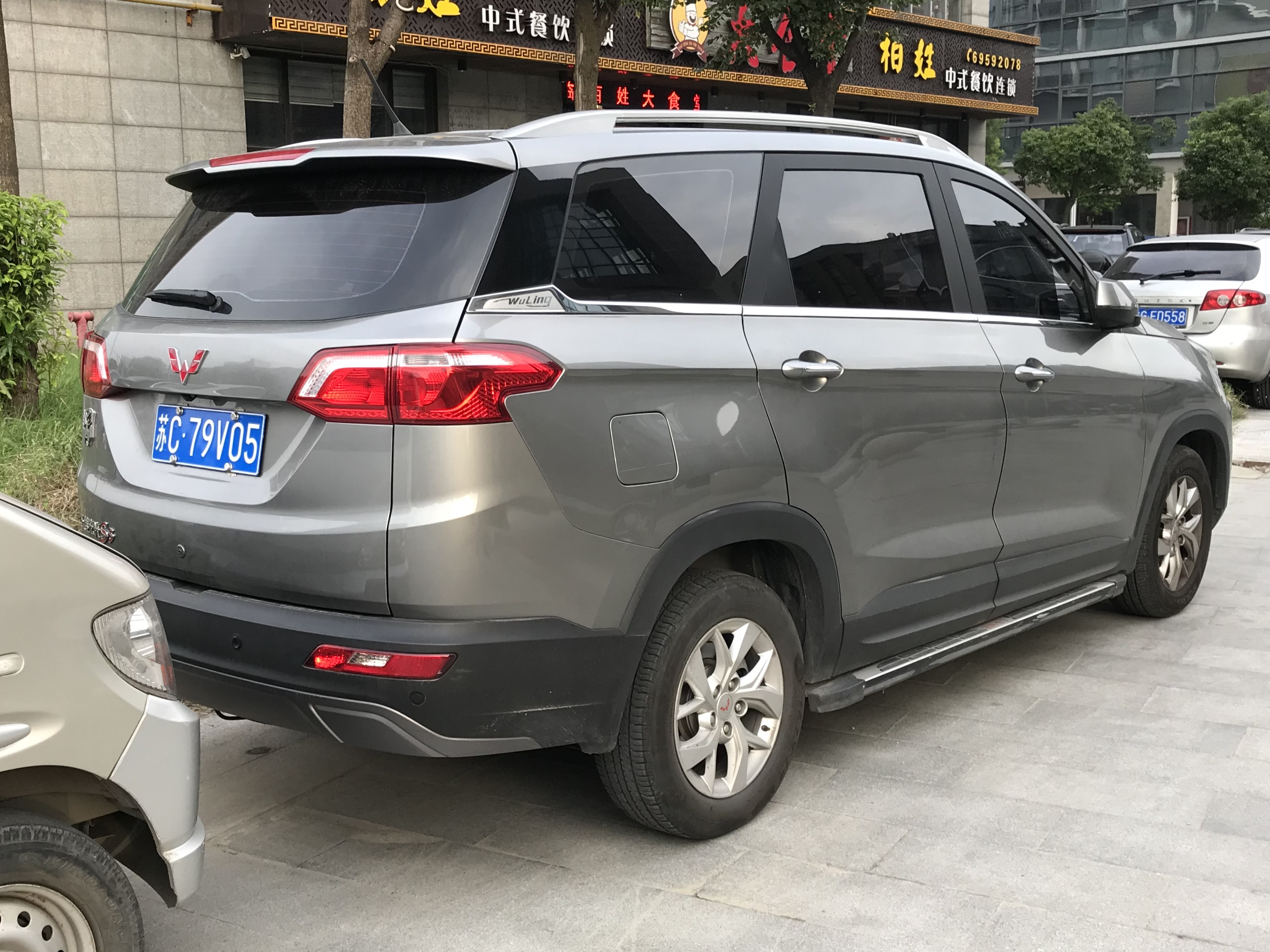 Wuling Hongguang S3